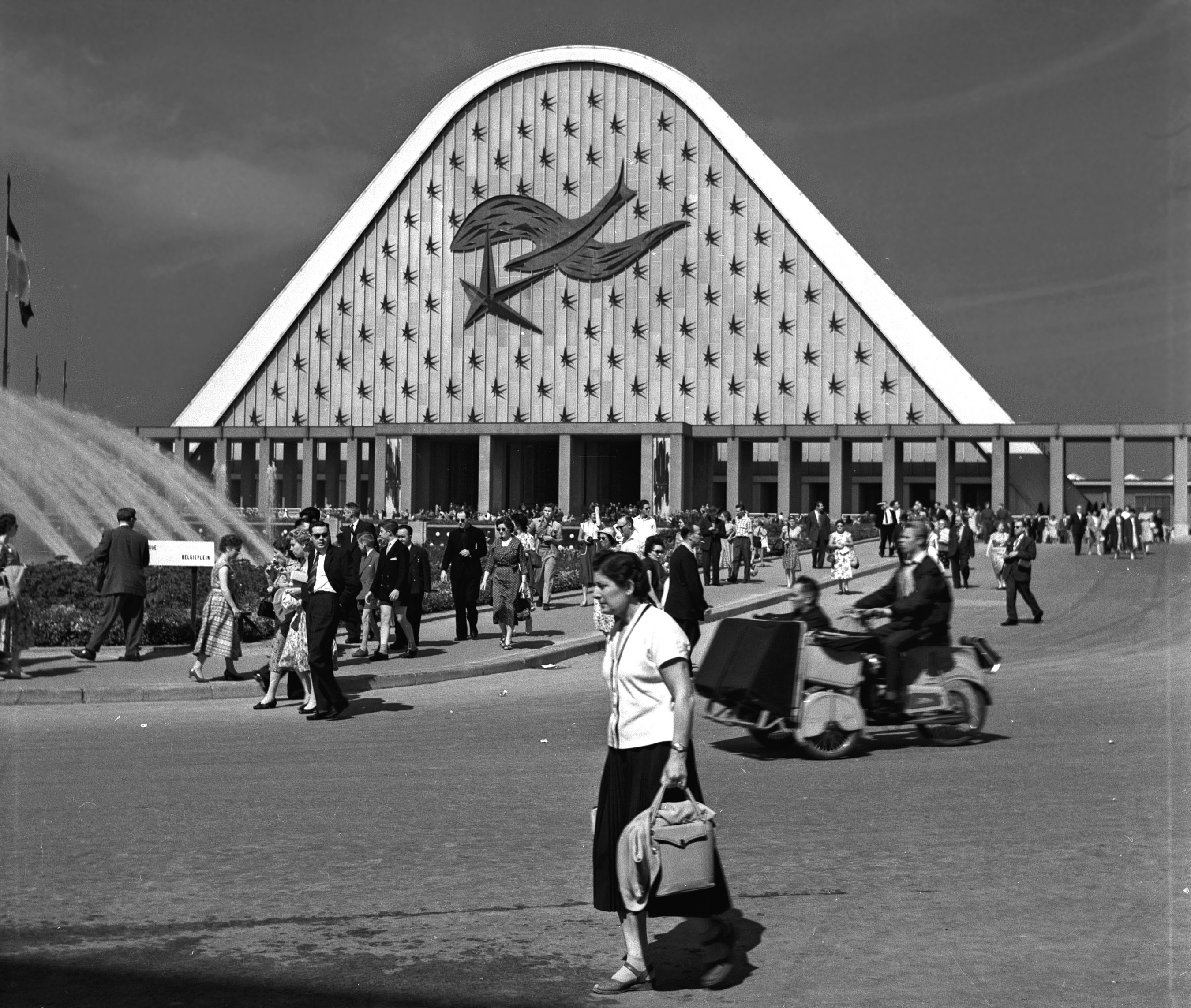 Expo 1958 The facade of the Grand Palace Heizel was specially made for the Expo 58